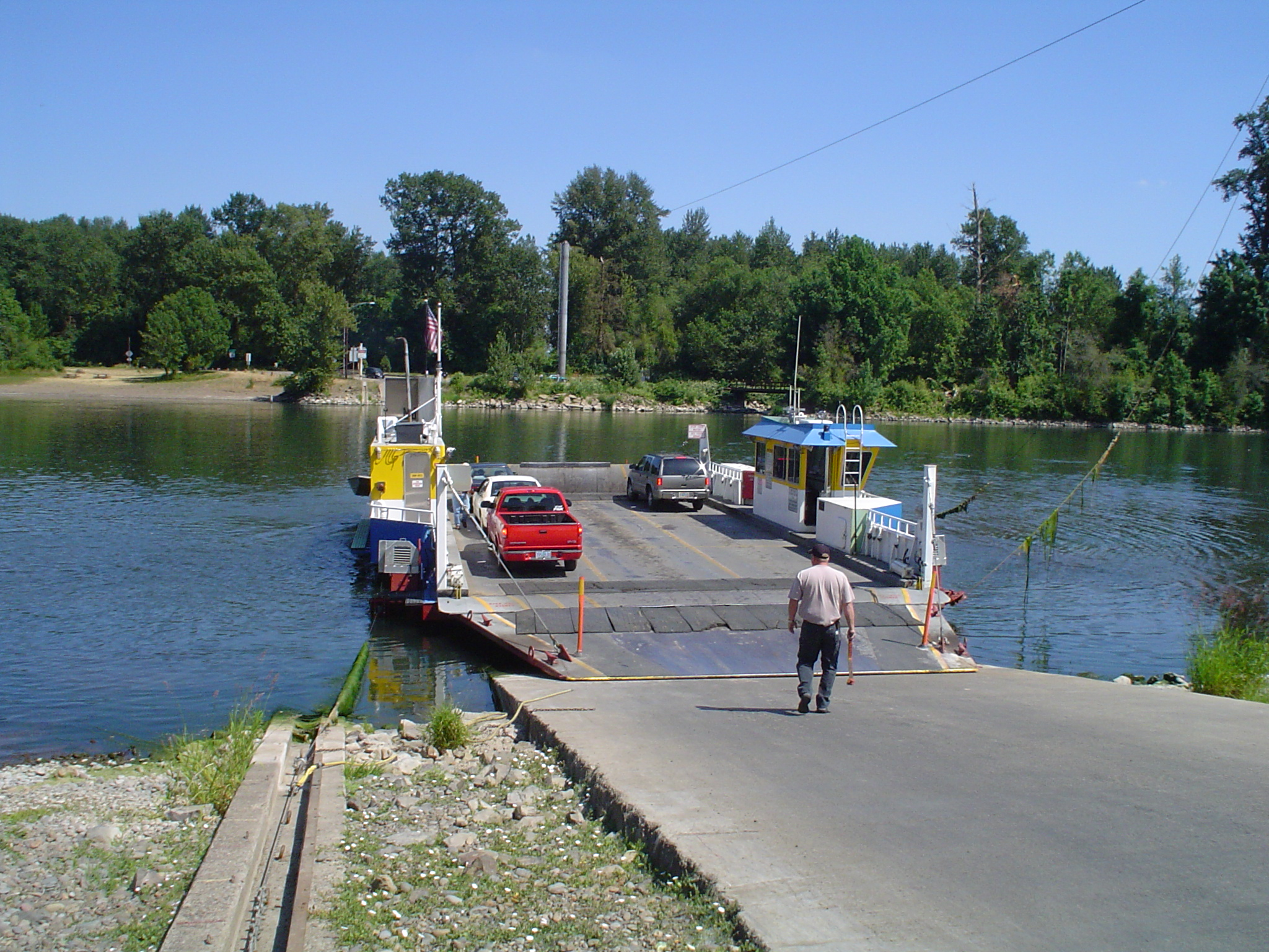 Photo description: This is a photo of the Wheatland Ferry, a ferry connecting the areas around Gervais, Brooks, and Woodburn with the areas around Amity and Monmouth. The Wheatland Ferry crosses the Willamette River. The official ferry website is